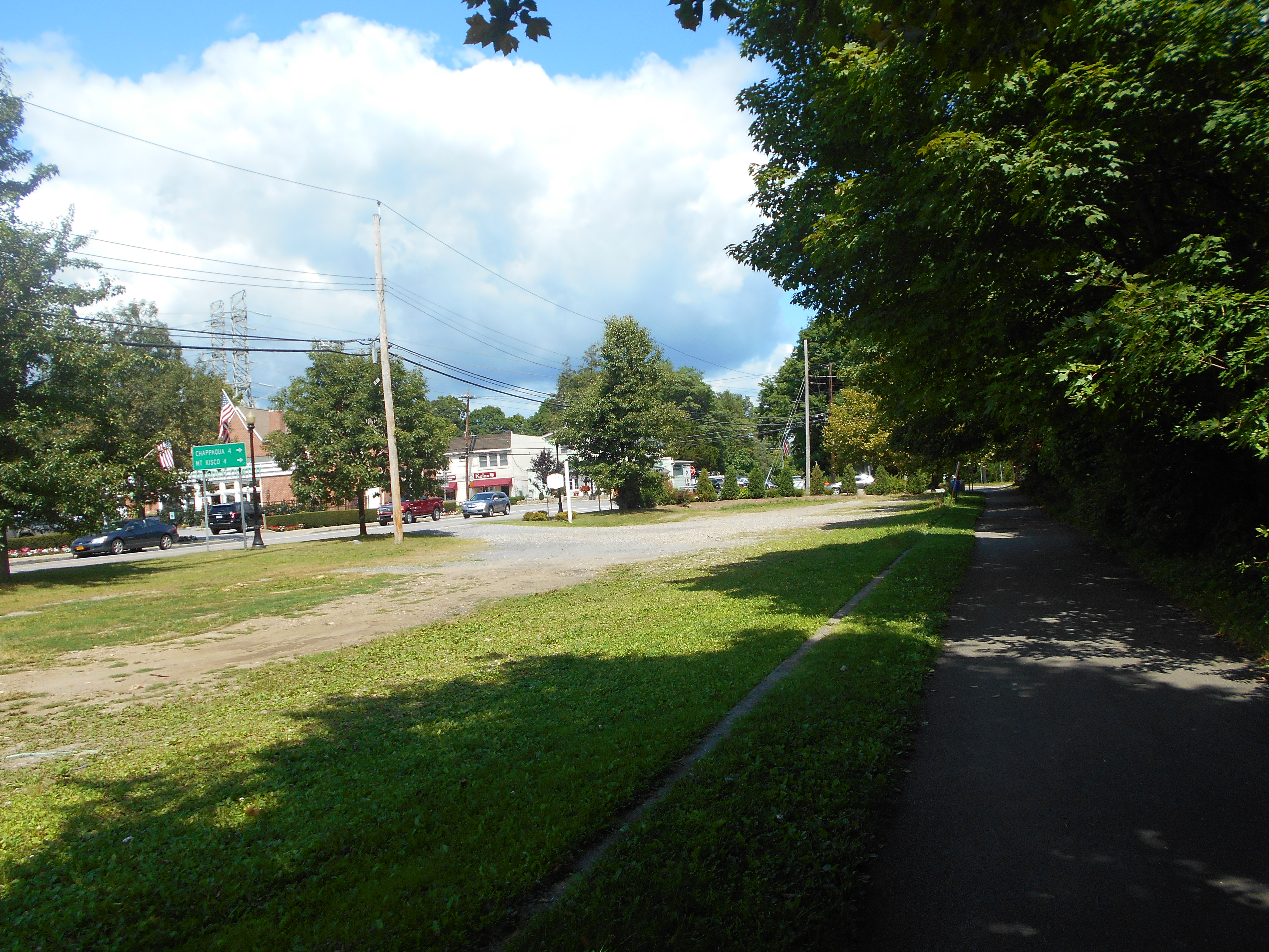 The former Millwood station of the New York Central Railroad's Putnam Division post-demolition in 2012.